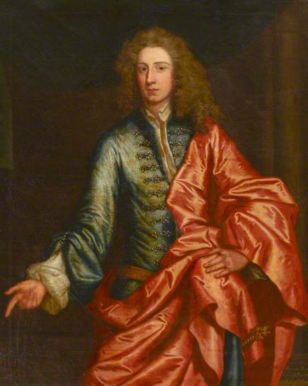 Algernon Seymour (1684–1750), Earl of Hertford, later (from 1748) 7th Duke of Somerset. On loan from the Egremont Private Collection, owned by Baron Leconfield and Egremont of Petworth House, displayed at Petworth House, West Sussex, England (National Trust)